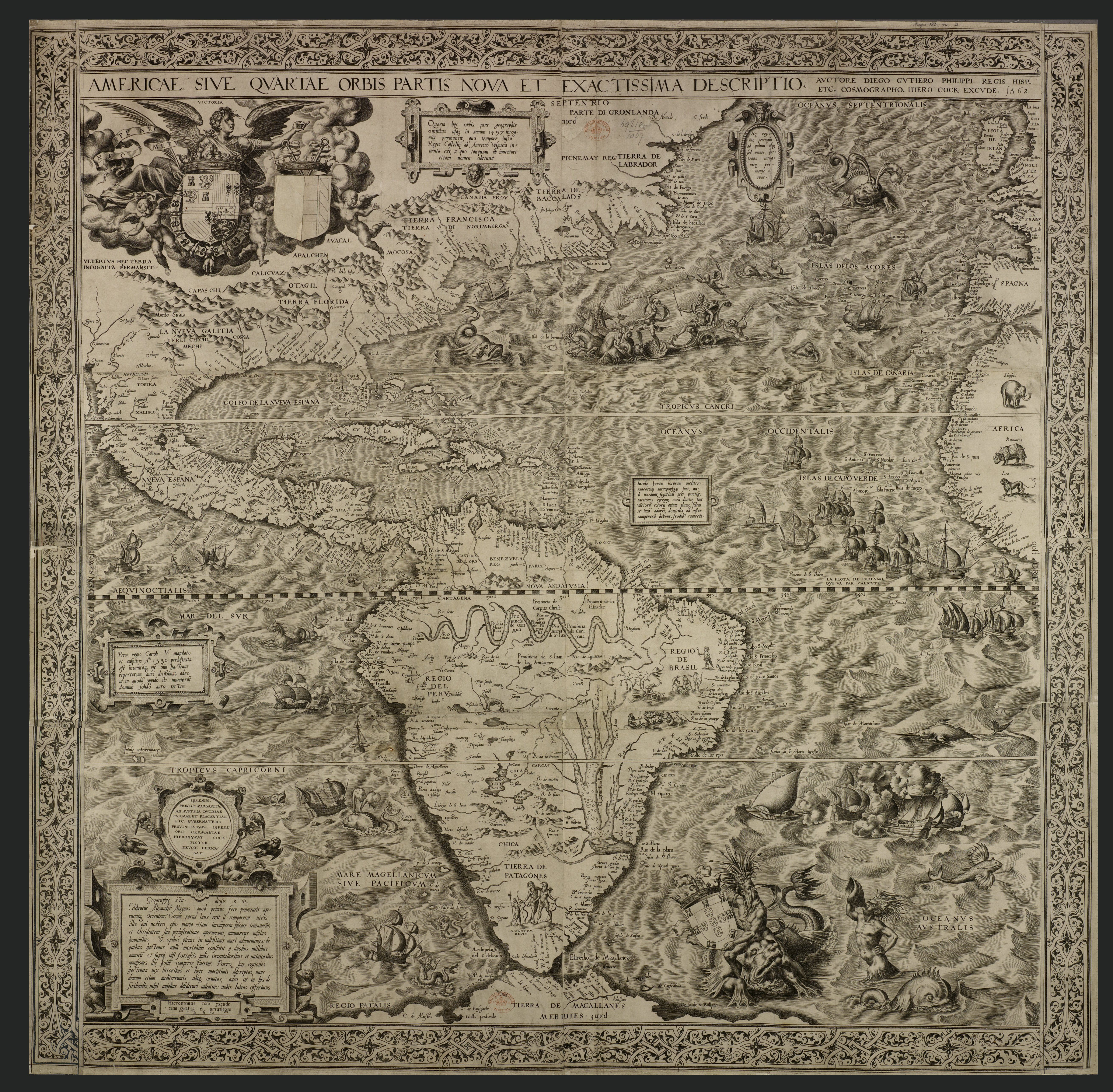 Map by Diego Gutiérrez showing the Spanish Empire at its height. Made for the approval of Philip II, here shown in the guise of Neptune.